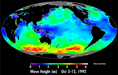 A map of mean wave height for the period Oct. 3-12, 1992. No data is provided about the ice-capped Arctic Ocean. The relatively strong waves in the South China Sea reflect a tropical storm or typhoon passing through the area. The strong waves around the Antarctic Ocean are normal products of the Roaring Forties.